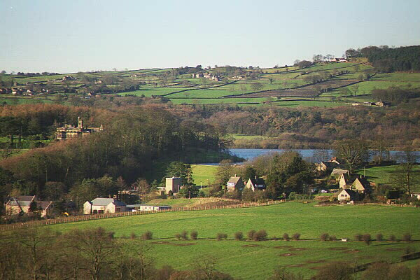 Mickley - View to Ogston Hall and Ogston Reservoir In the left foreground is Ogston Water Treatment Works. Above this (and partially obscured by an avenue of trees) can be seen Ogston Hall. Ogston Reservoir can be seen in the middle right of the photo.